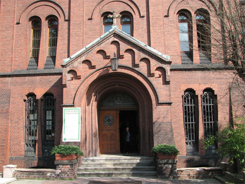 The entrance to the monastery in Katowice Panewniki, Poland.